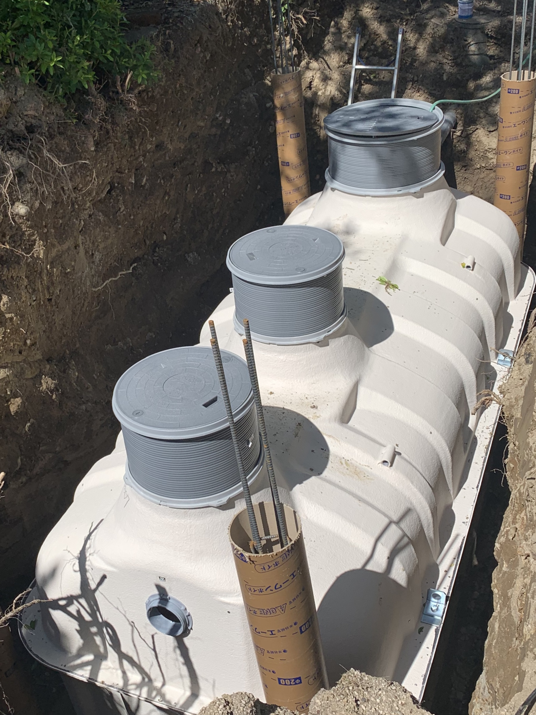 Japanese septic tank installed